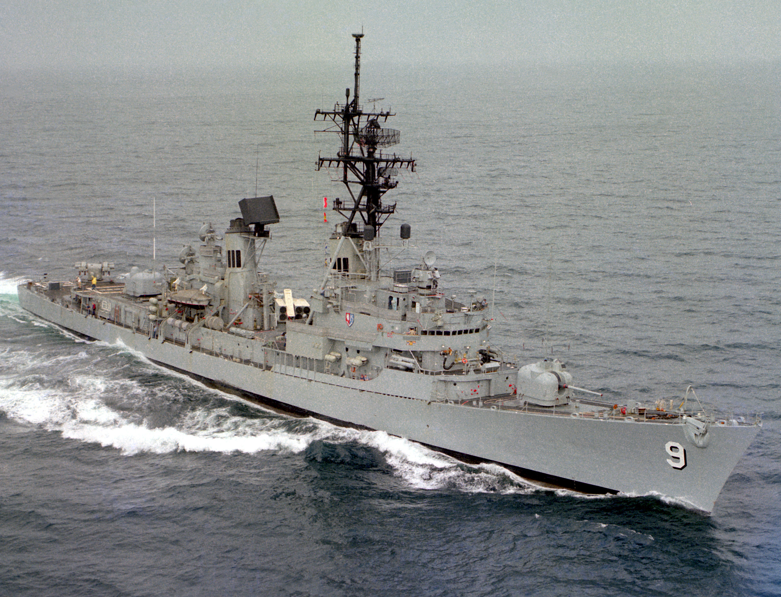 The U.S. Navy guided missile destroyer USS Towers (DDG-9) underway at sea on 1 August 1982.